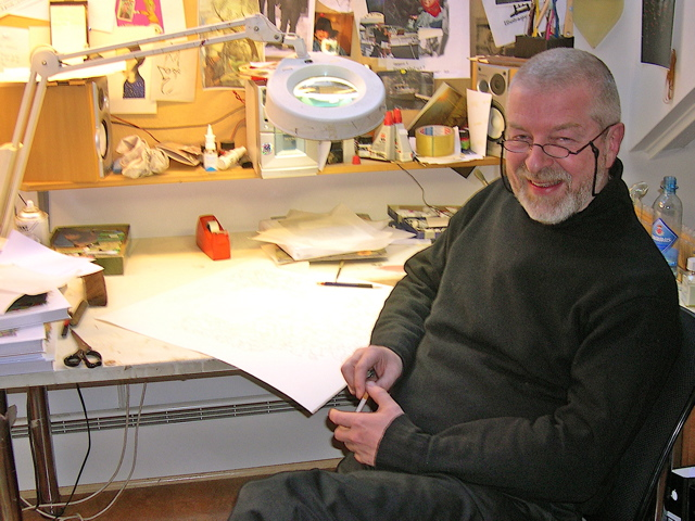 Harald Nordberg, 2005. Norwegian illustrator and writer of children's books.